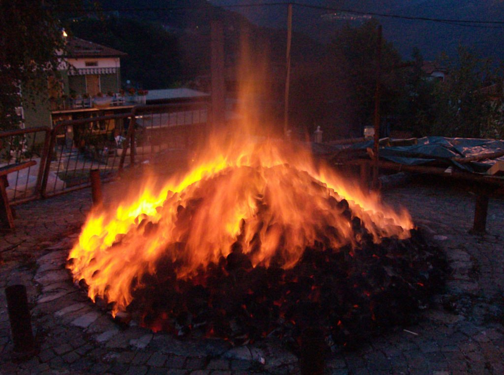 Calchera, Ono San Pietro